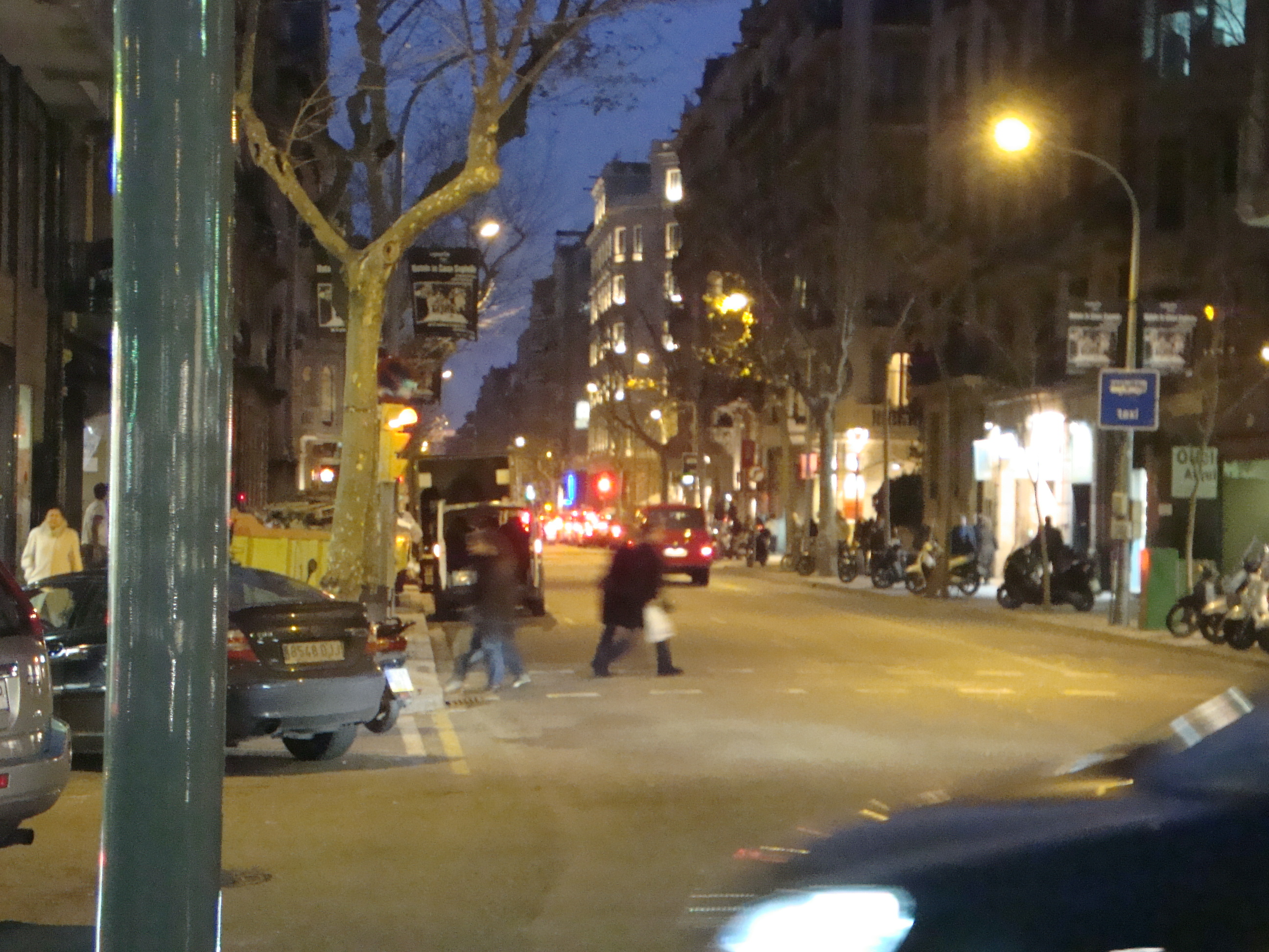 Mallorca street (Barcelona) seen from the crossroads with Rambla Catalunya.